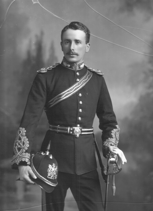 Photo by (James Lafayette), Lafayette Ltd., 1900, photo of Arthur R. P., 5th Viscount Southwell (1872-1944).